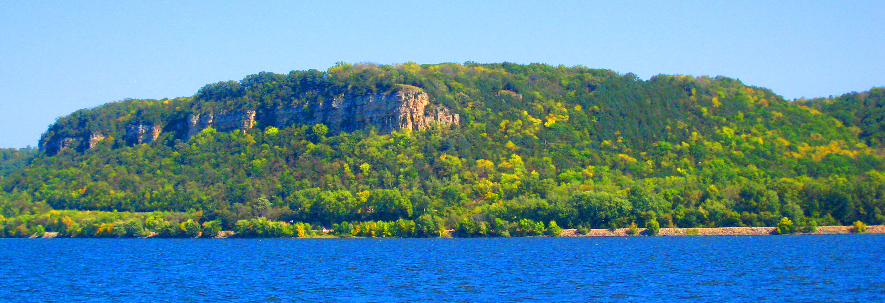 Maiden Rock bluff as seen from Lake Pepin